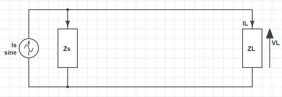 Schematic representation of noise circuit considering a single frequency component.